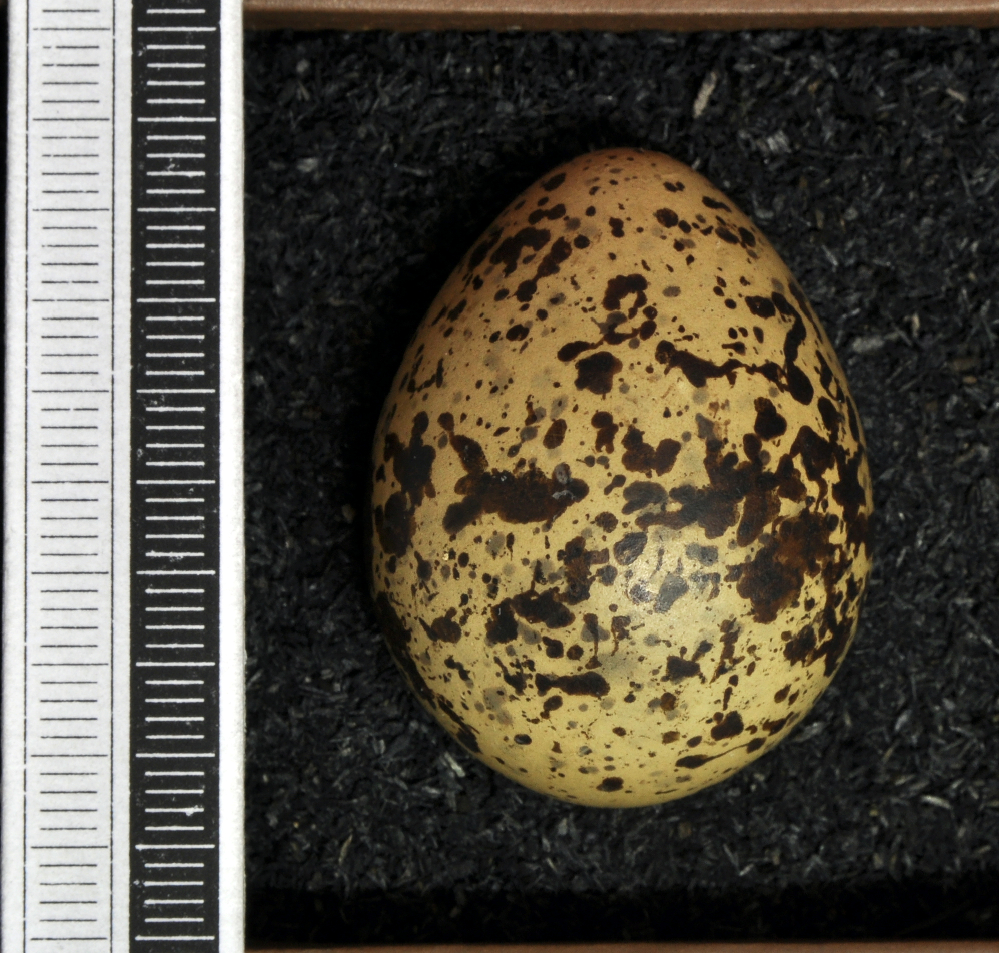 White-winged tern Chlidonias leucopterus , egg, Coll. Museum Wiesbaden